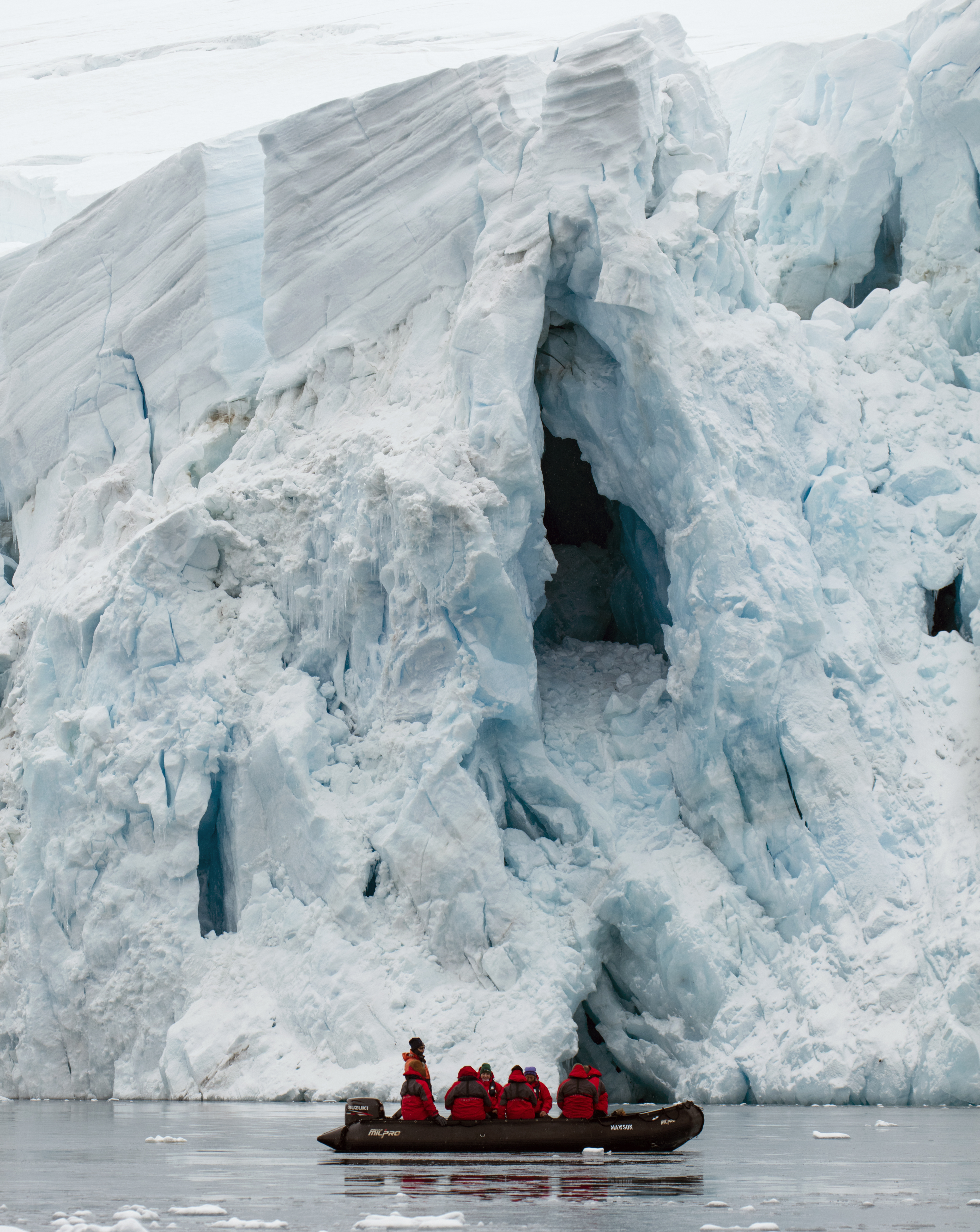 The Arena Glacier ice flow meets the water of Hope Bay, Trinity Peninsula, on the northernmost tip of the Antarctic Peninsula